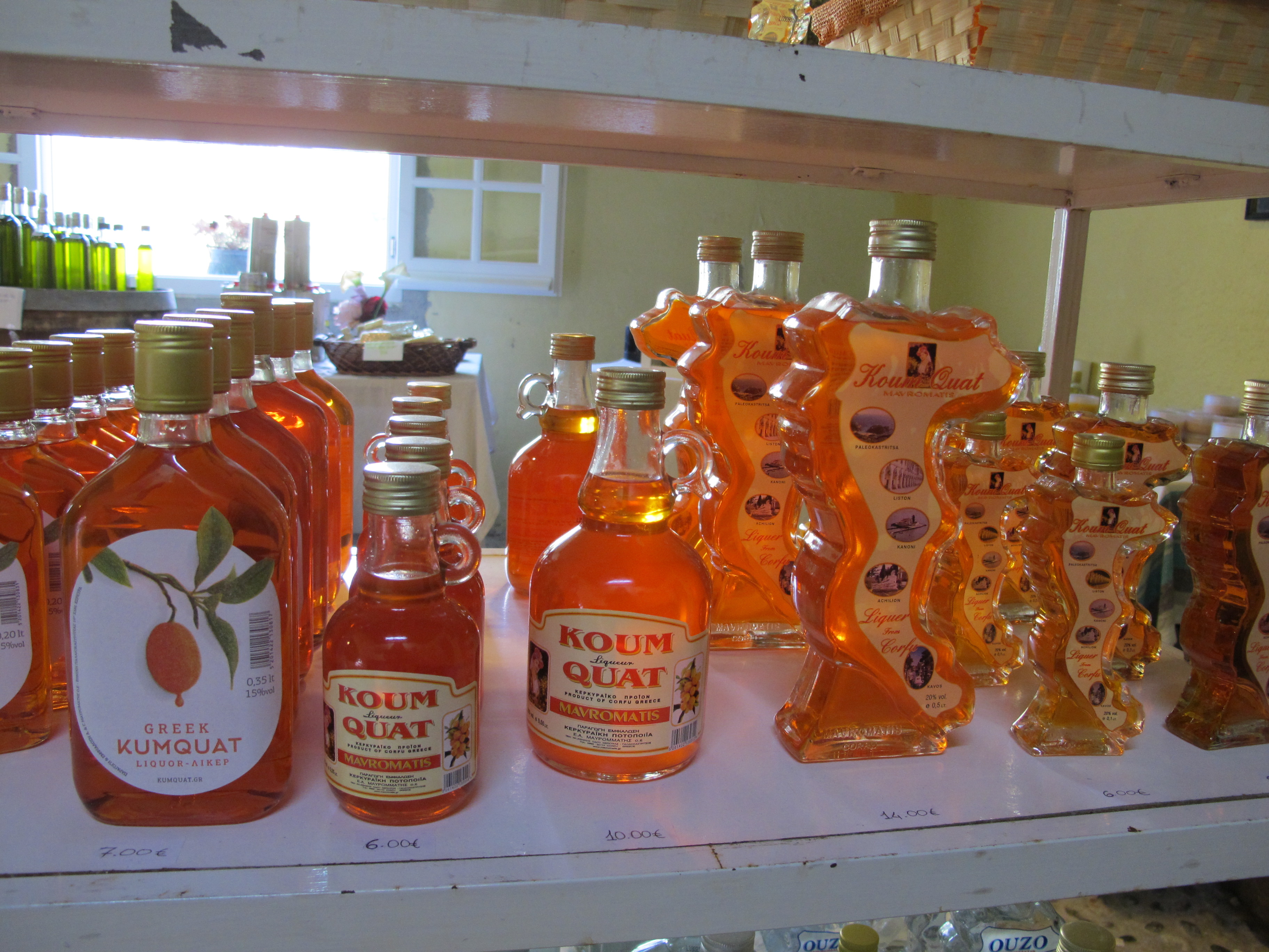 sales offer for Koum Kuats in the Moni Palaiokastritsa